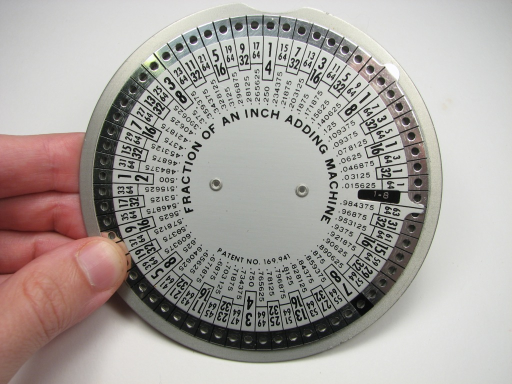 The 'Fraction of an inch adding machine' manufactured during the 1950s.